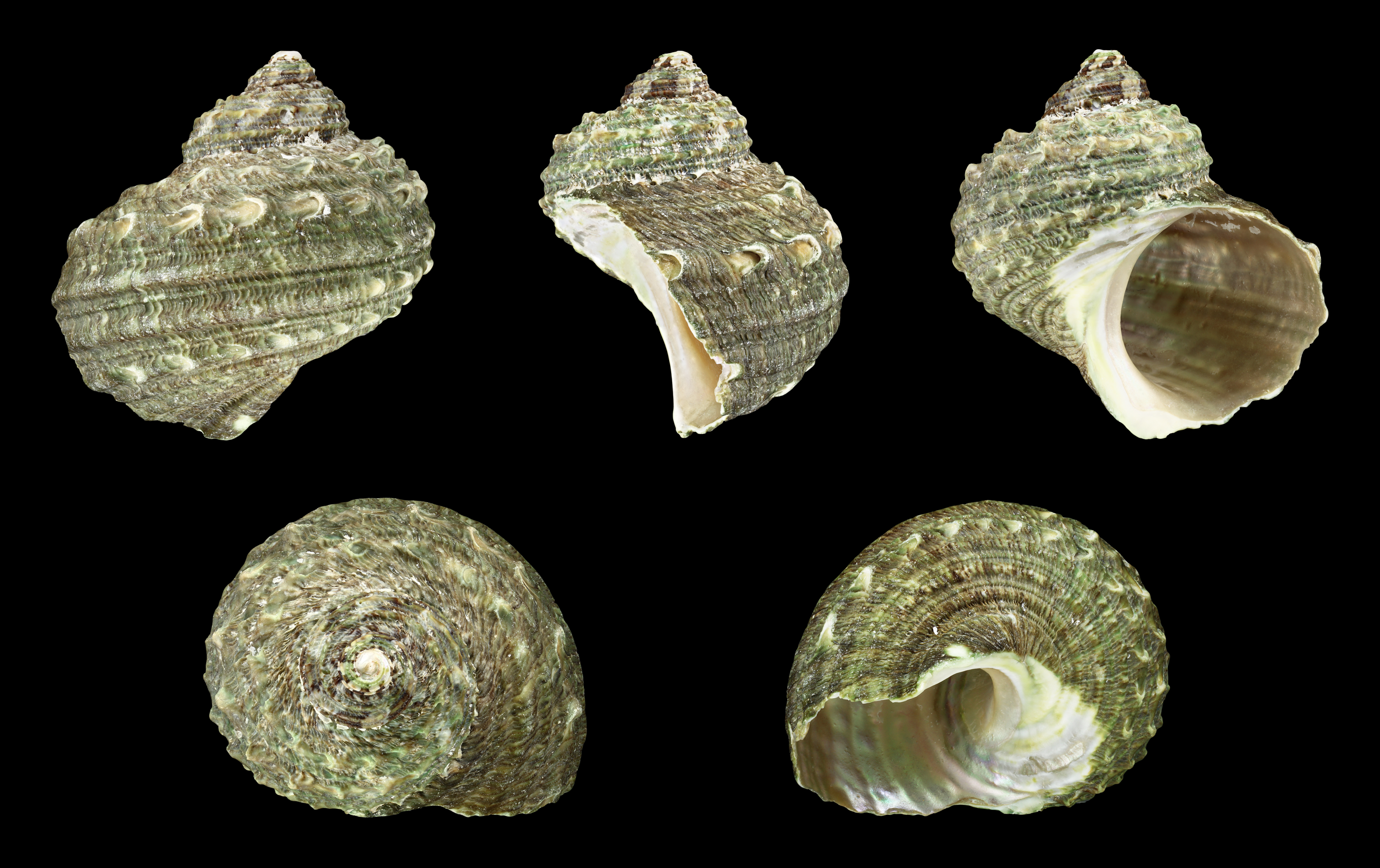 Turbo chinensis Ozawa et Tomida, 1995, Chinese turban; Diameter 4.6 cm; Originating from Japan; Shell of own collection, therefore not geocoded.